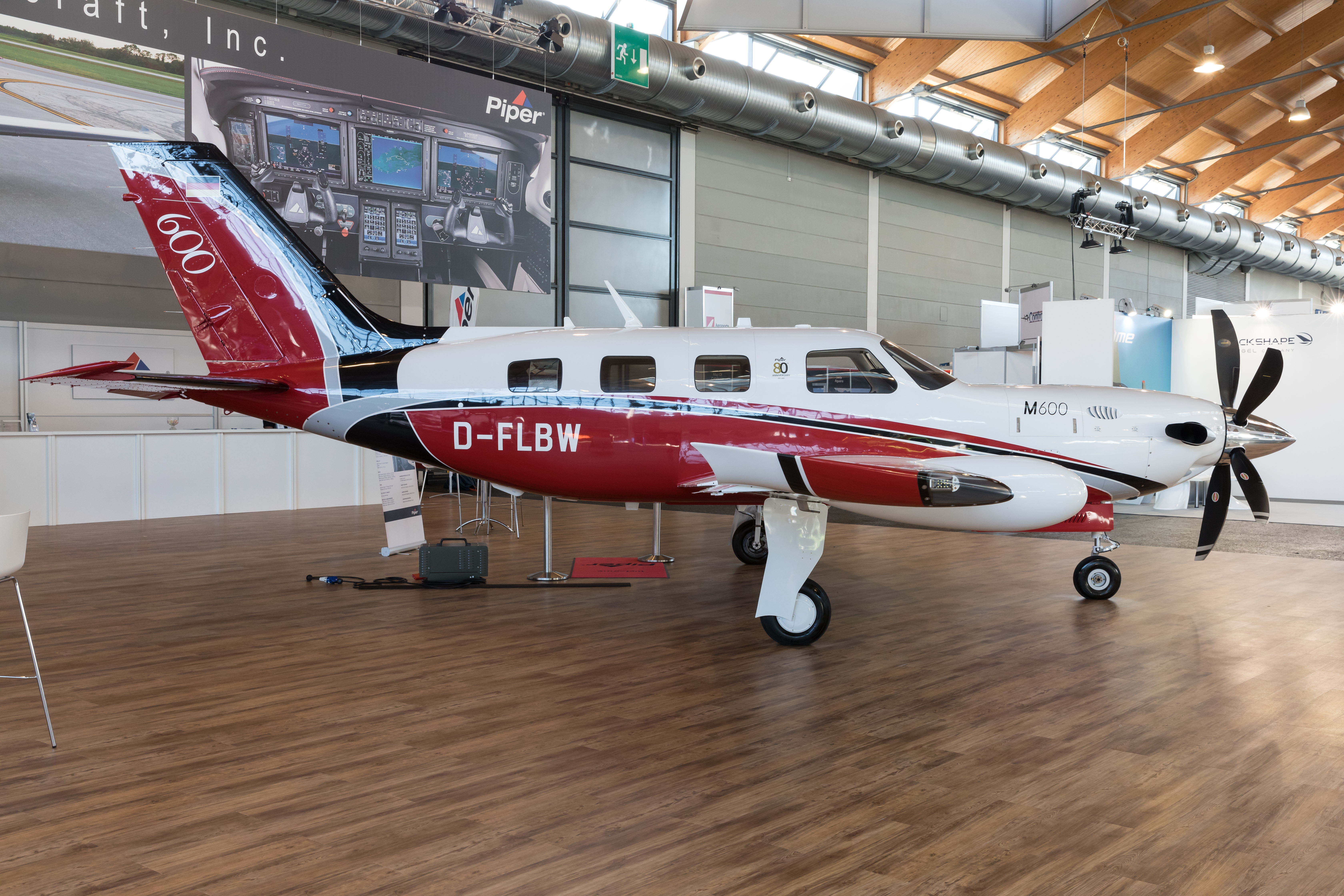 AERO Friedrichshafen 2018